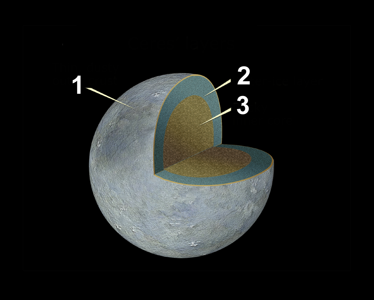 Cutaway view of asteroid 1 Ceres. Observations of 1 Ceres, the largest known asteroid, have revealed that the object may be a "mini planet," and may contain large amounts of pure water ice beneath its surface. The observations by NASA's Hubble Space Telescope also show that Ceres shares characteristics of the rocky, terrestrial planets like Earth. Ceres' shape is almost round like Earth's, suggesting that the asteroid may have a "differentiated interior," with a rocky inner core and a thin, dusty outer crust.